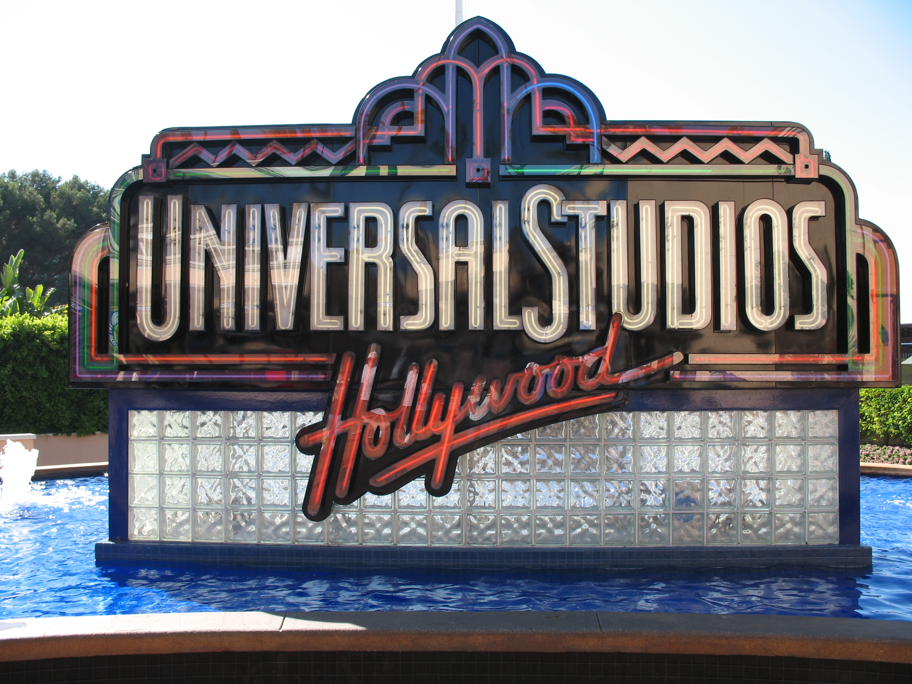 Photo of the fountain at the entrance to the Universal Studios, Hollywood theme park.